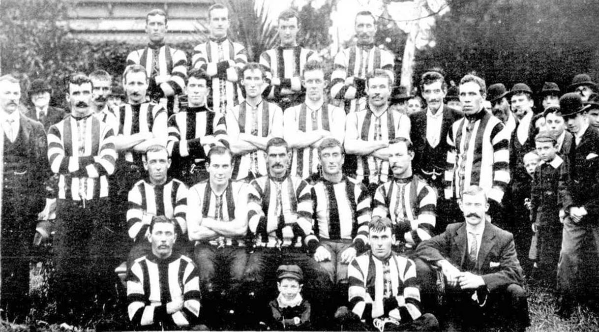 Collingwood FC team, premiers.